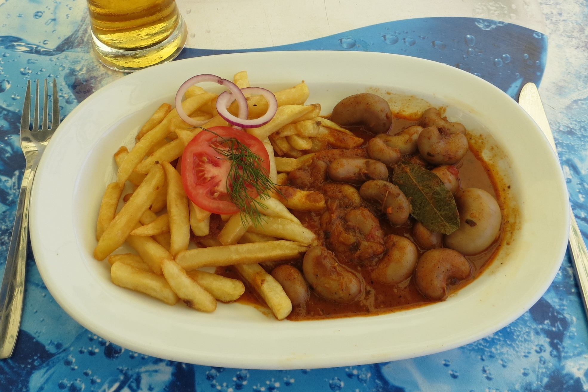 Rooster testicle stew (Kakashere pörkölt) served in Enying, Hungary